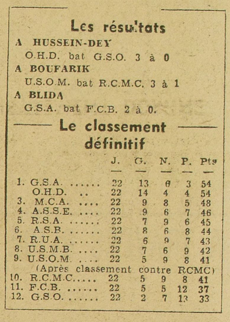 L'Echo d'Alger : journal républicain du matin